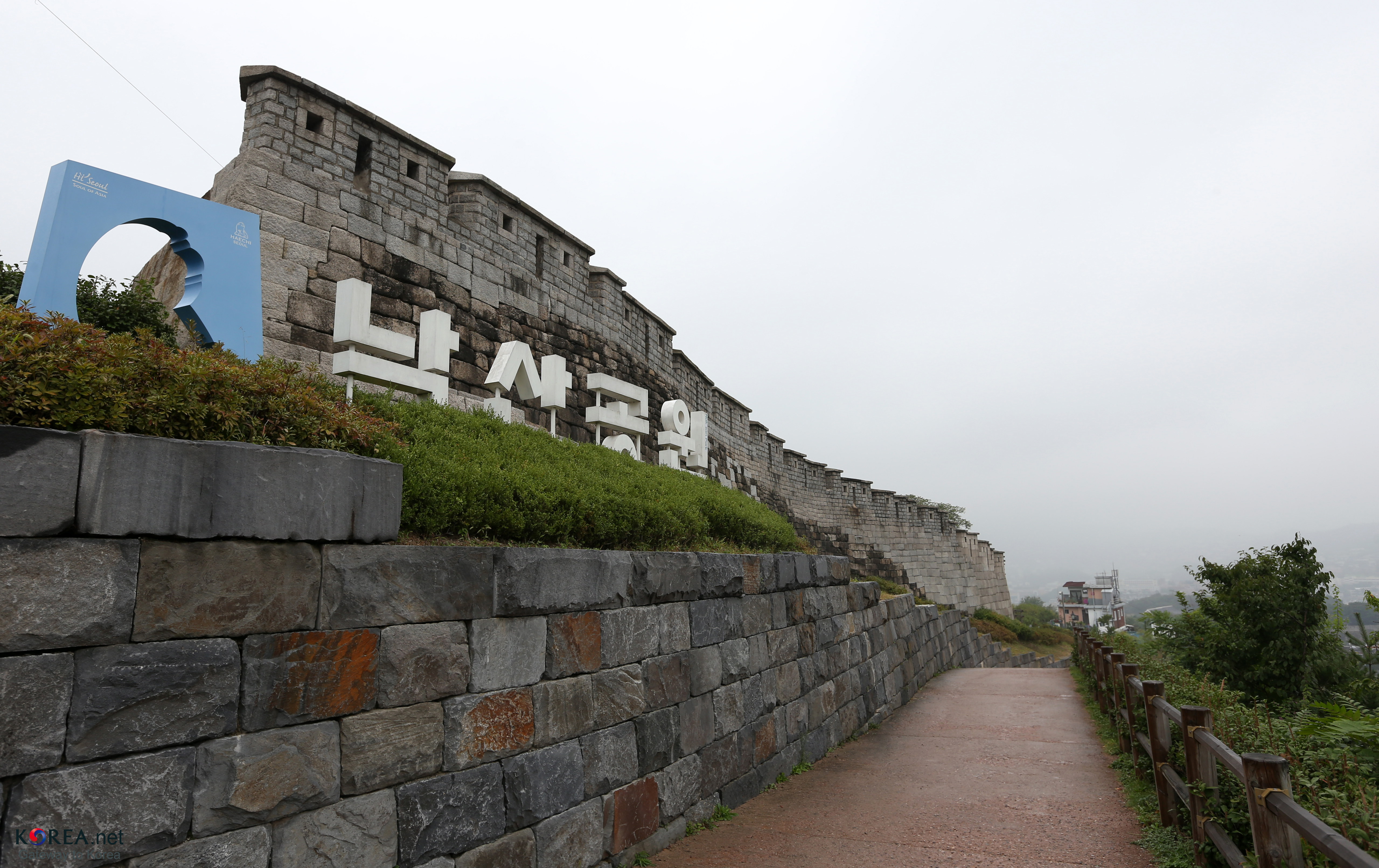 Seoul Fortress 2013.09.24. Fortress Park & Naksan Park, Seoul Ministry of Culture, Sports and Tourism Korean Culture and Information Service ( JEON HAN 서울 성곽 성곽공원 - 낙산공원, 서울 문화체육관광부 해외문화홍보원 코리아넷 전한